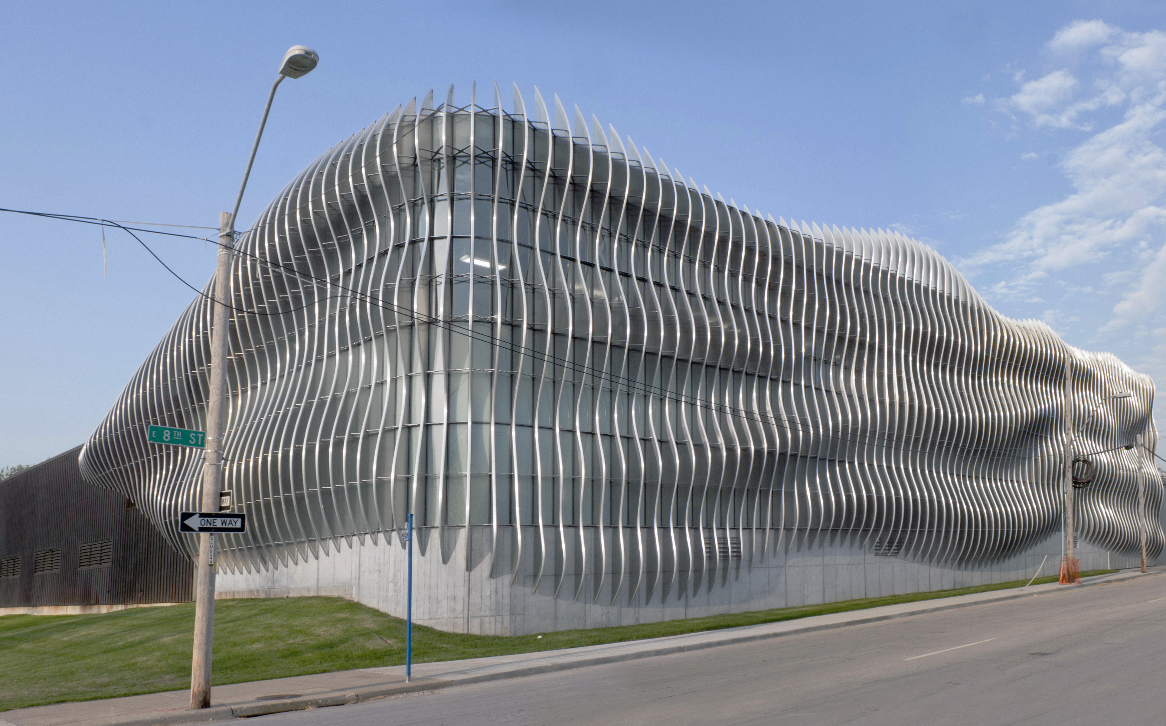 North Facade of the Zahner Headquarters on 8th and Paseo east of Downtown Kansas City